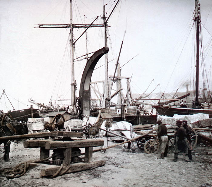 In the port of St.-Petersburg